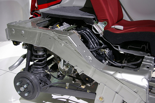 Mitsubishi_i taken in The 39th Tokyo Motor Show